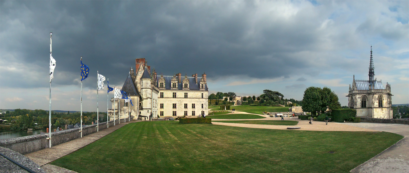 Château d'Amboise, Indre-et-Loire, Centre, France. Panorama of the terrace with the chapel of Saint-Hubert on the right.